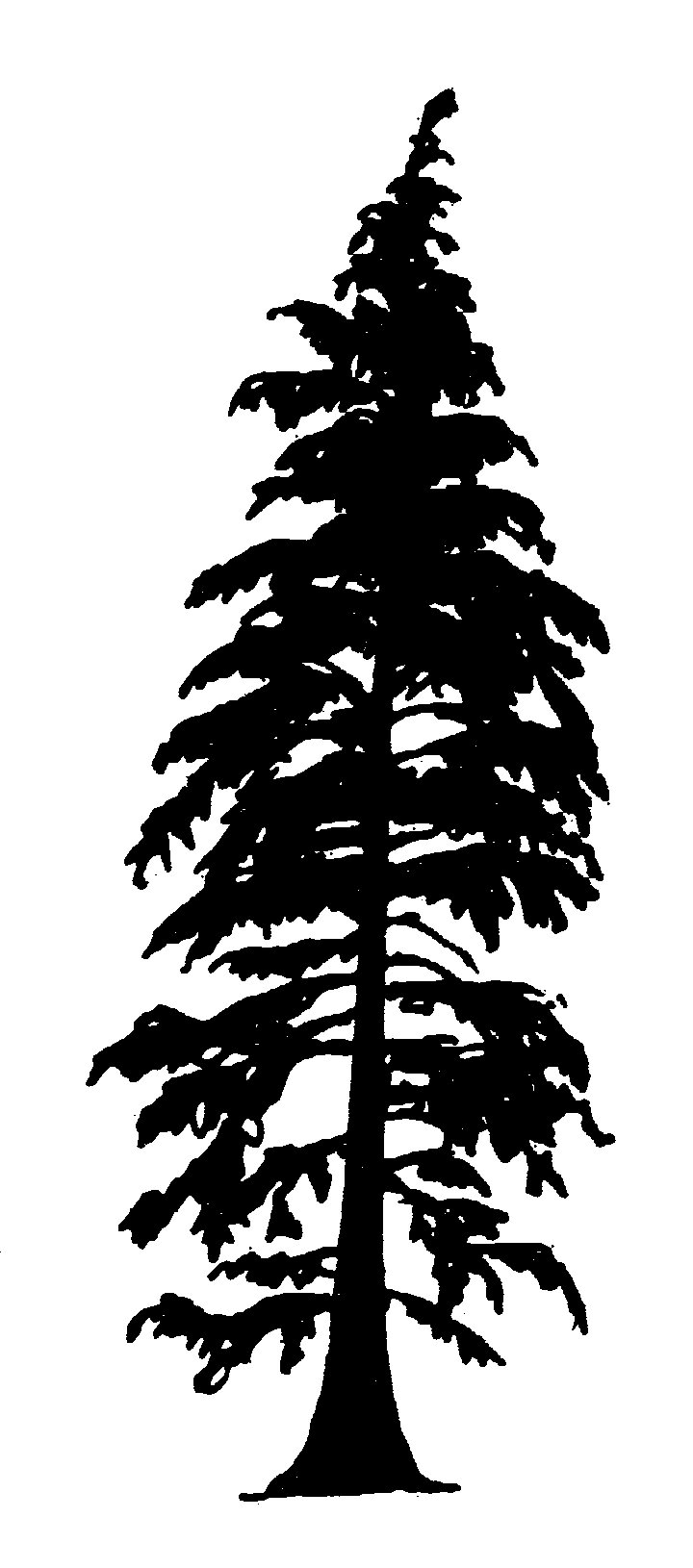 Western Hemlock - Tsuga heterophylla